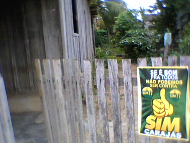 Picture taken inside the Para Basically a poster to support the division of the state.